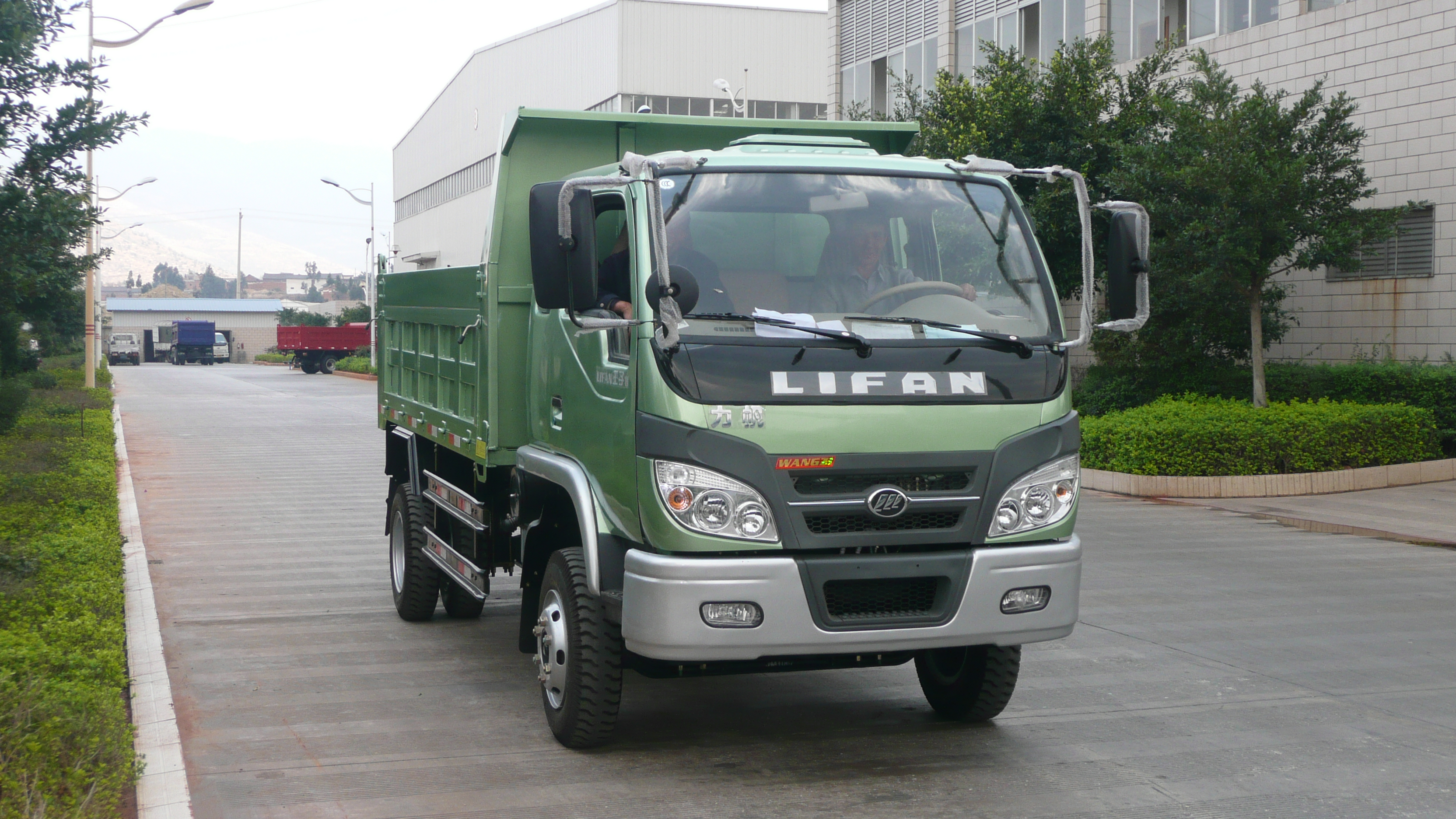 Lifan Truck, Yunnan Lifan Junma Vehicle Co., Ltd., Dali